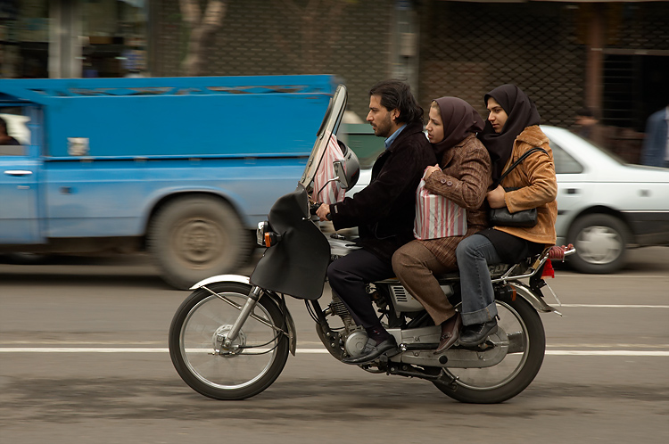 Tehran Last photograph of the Tehran 2007 set